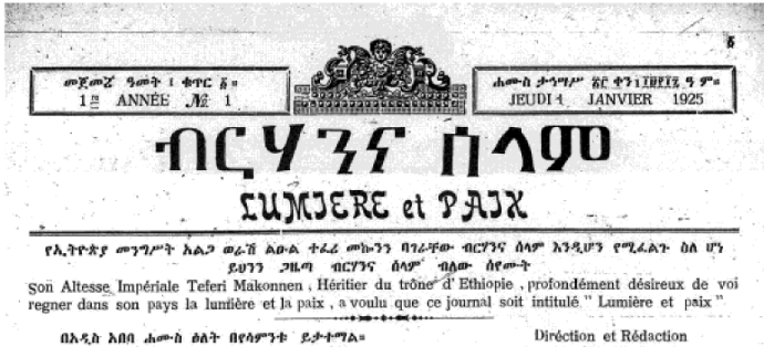 The first issue of Berhanena Salem was published on January 1, 1925.